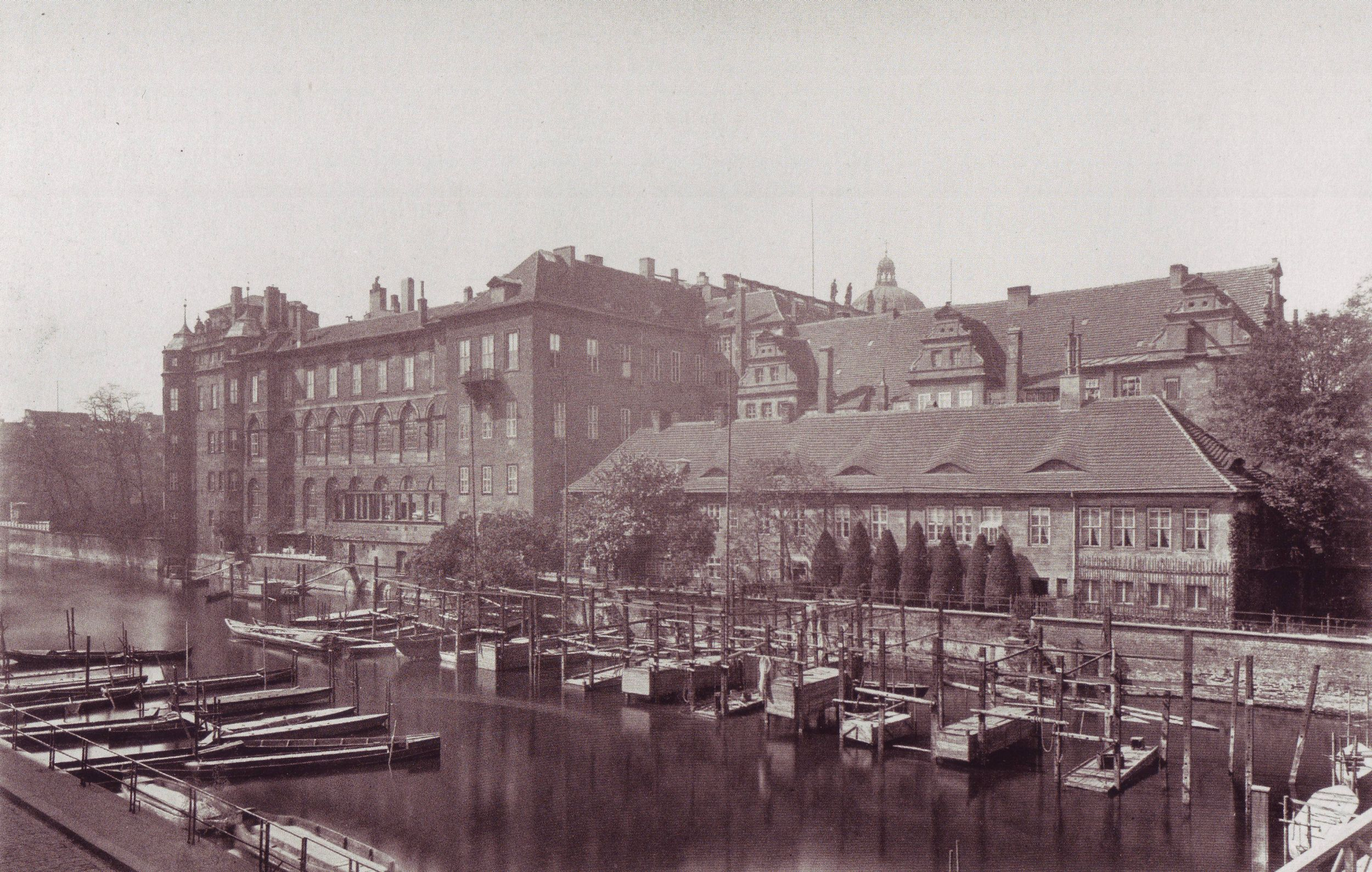 Backside of Berlin Palace.